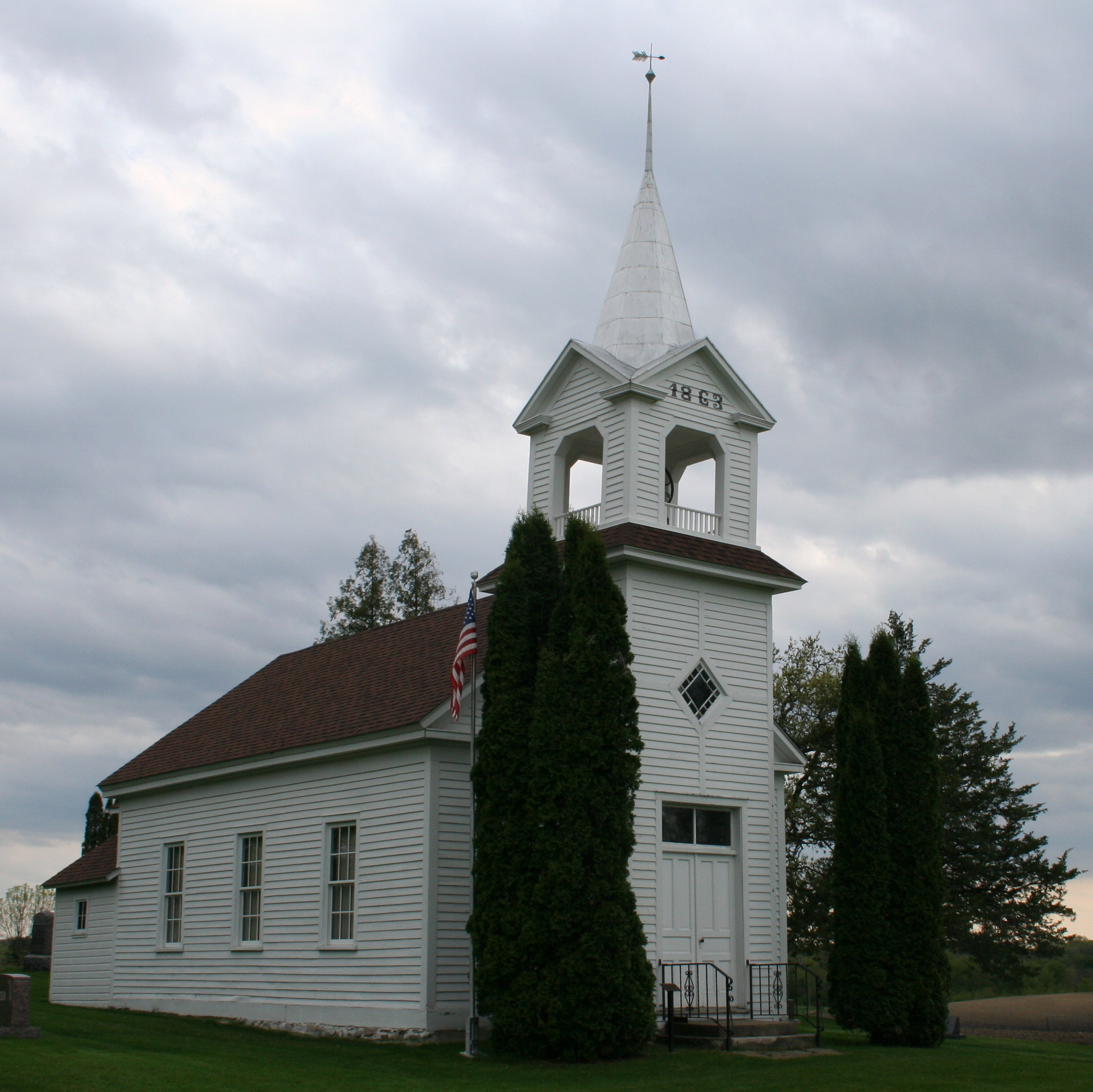 Zoar Moravian Church seen from Carver County Highway 10 west of Chaska near Waconia, Minnesota.